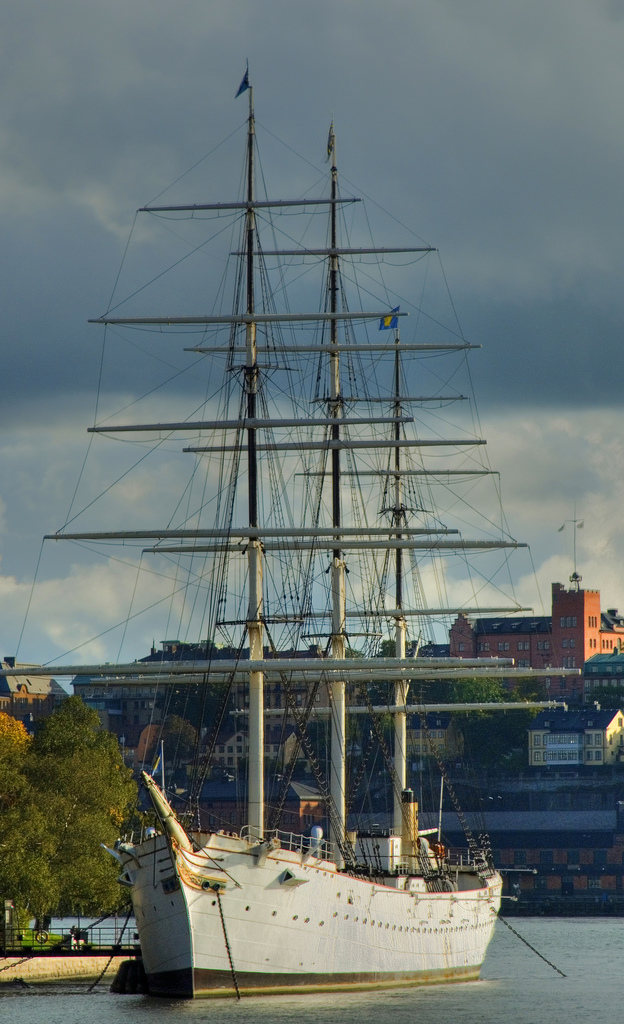 View of steel full-rigged ship af Chapman (serving as a youth hostel) moored at Skeppsholmen in central Stockholm.